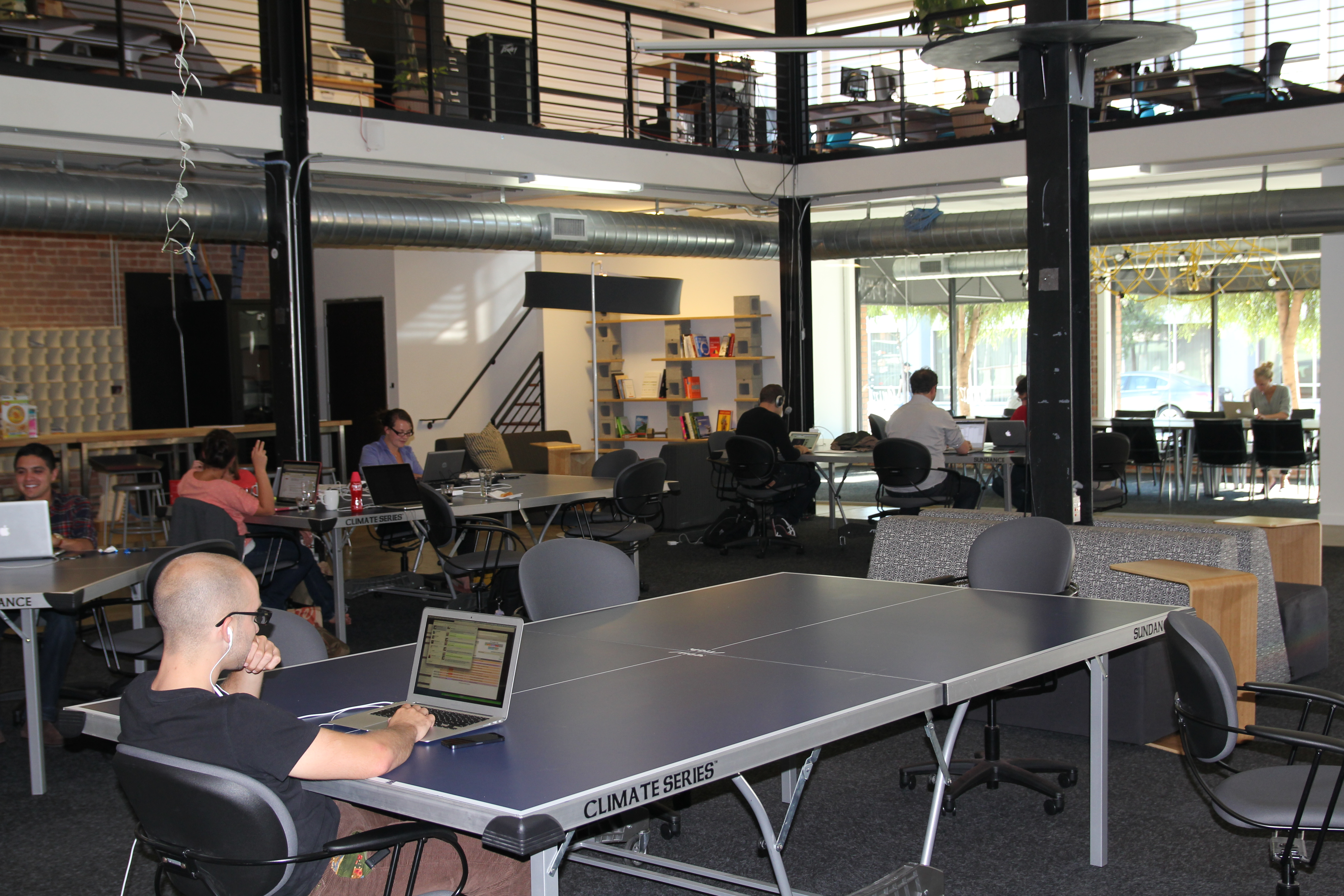 the main open space from another angle